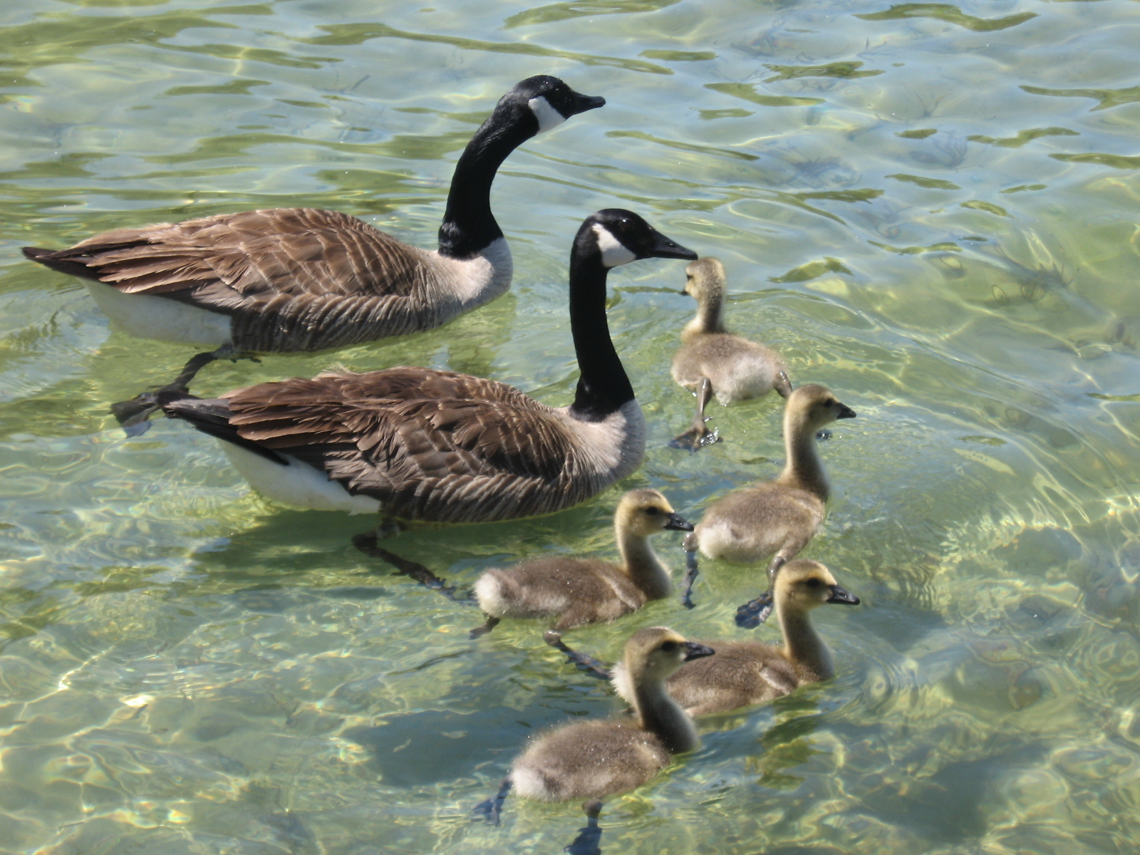 Canada geese and their young